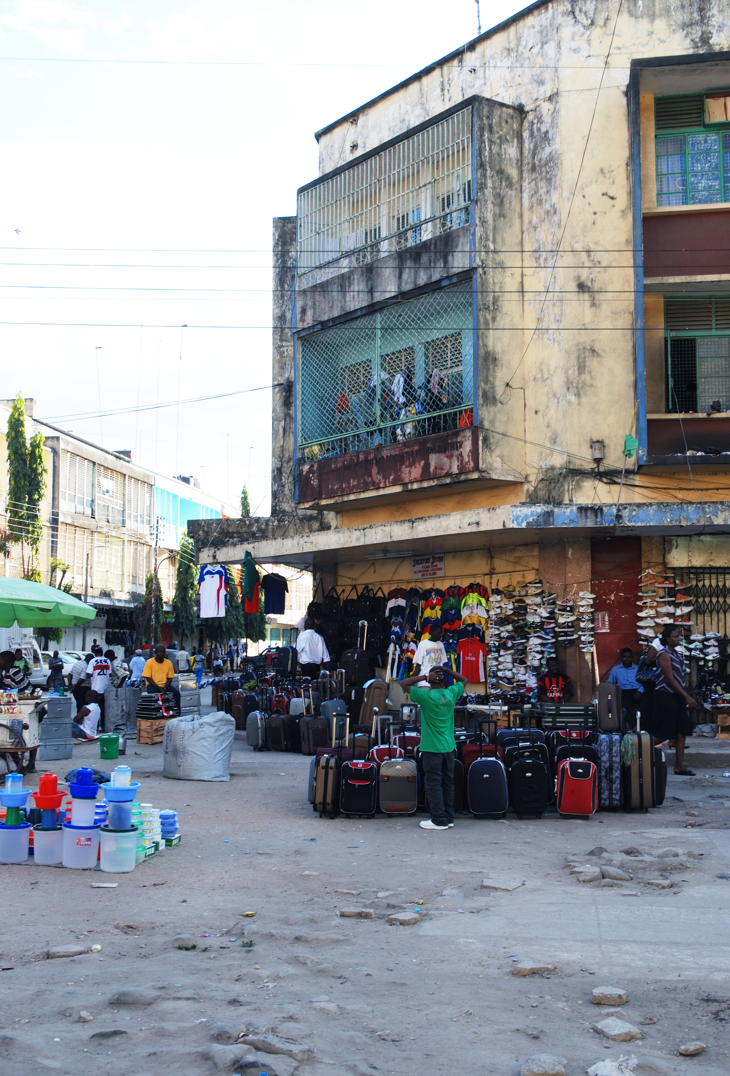 The market in the Kariakoo area of Dar es Salaam, in the late afternoon